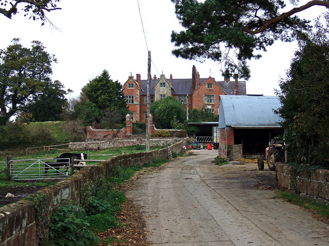 Stanwardine Hall - Baschurch A former Elizabethan manor house, Stanwardine Hall was built for Robert Corbet in 1588, and is today a farmhouse. The house was extended in the C17 for Corbet's son Thomas, and there was further remodelling in 1713. The house is Grade II* Listed.